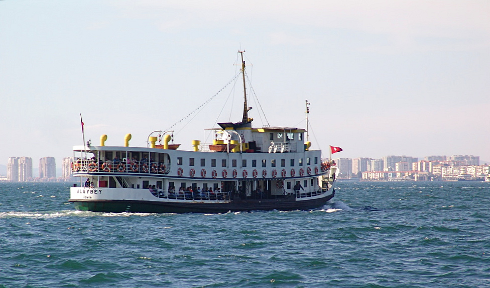 Ferry Alaybey transporting passengers between Konak and Karşıyaka, İzmir, Turkey